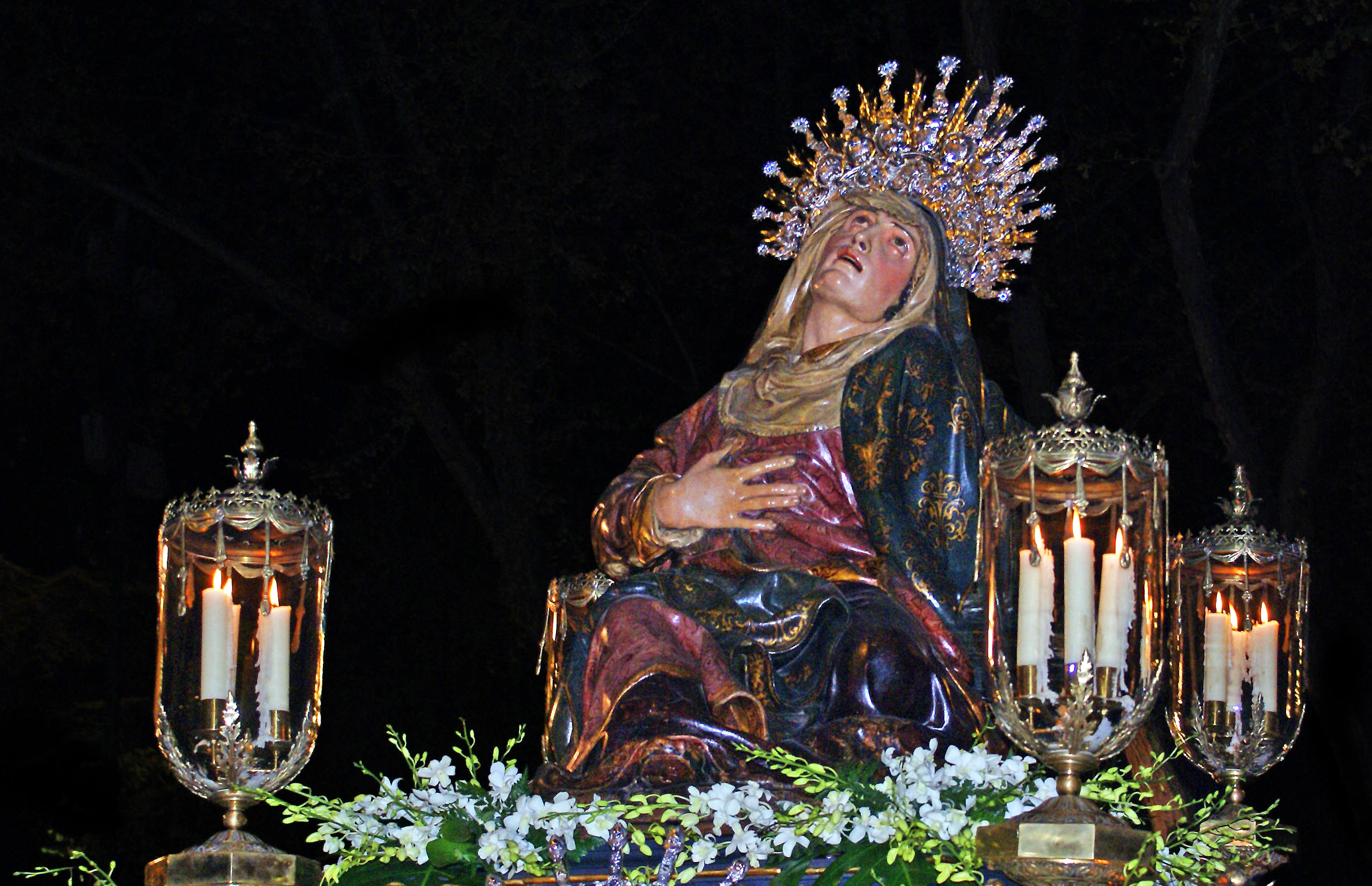 "Nuestra Señora de las Angustias", by Juan de Juni circa 1561 in Valladolid.